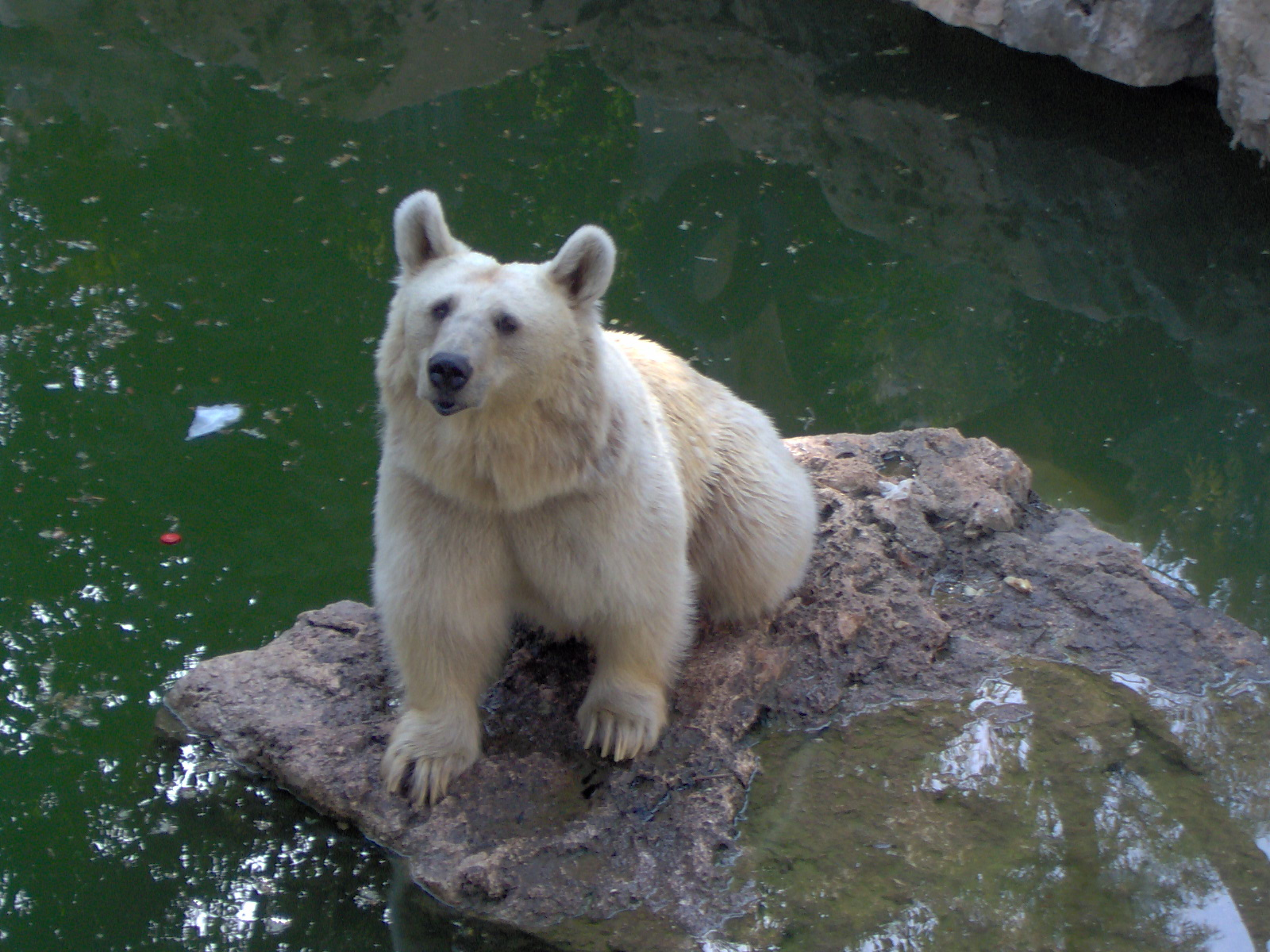 A Brown Bear in the biblical zoo in Jerusalem